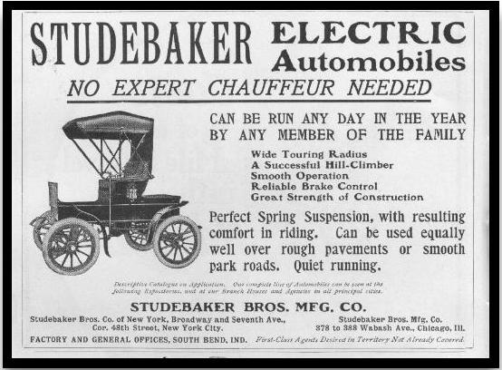 Copy of a Studebaker Electric Car Ad that was published around 100-103 years ago.